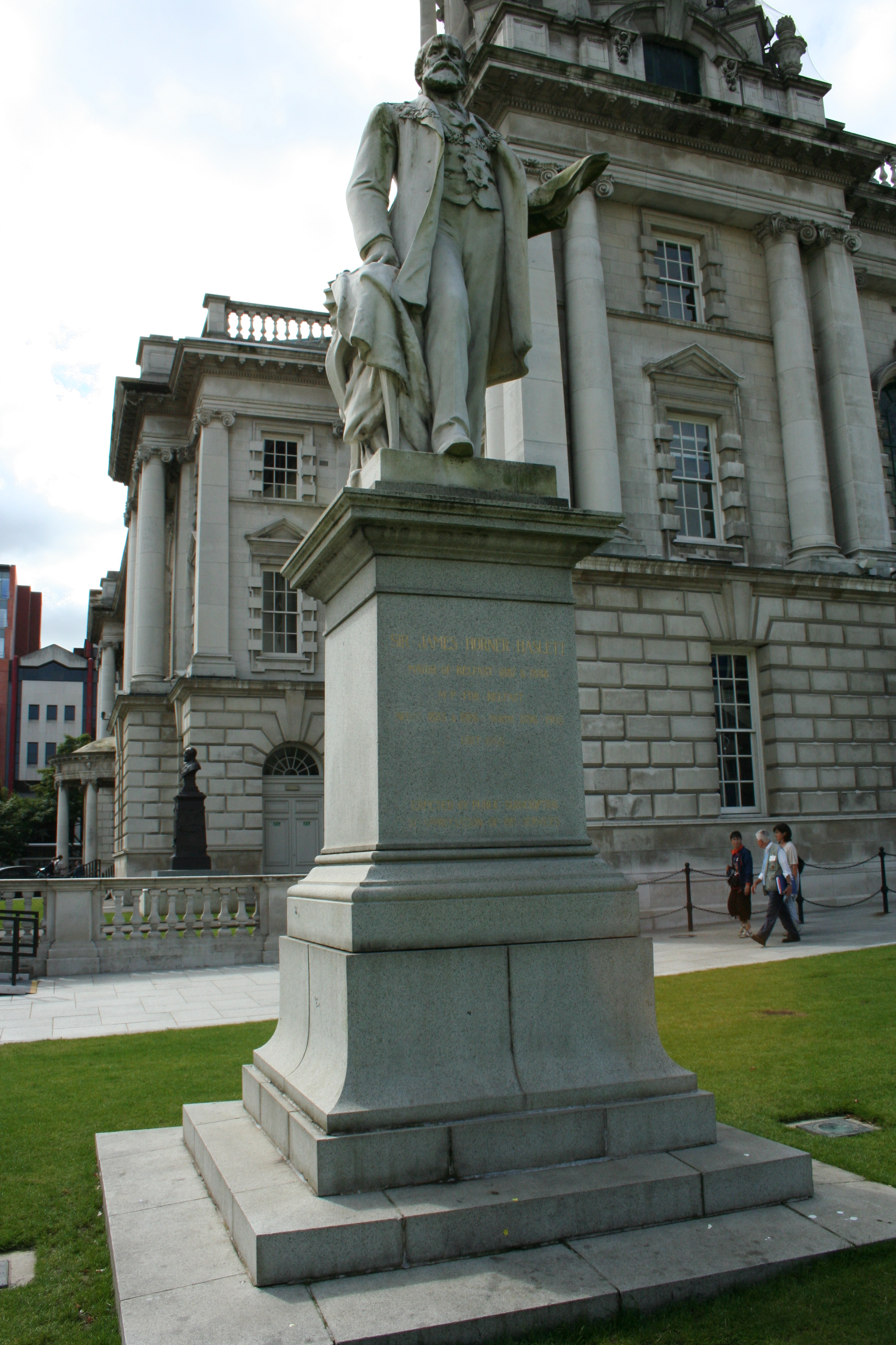 Image of monument to James Horner Hazlett, Mayor of Belfast 1887 & 1888 Credit: A Peter Clarke image